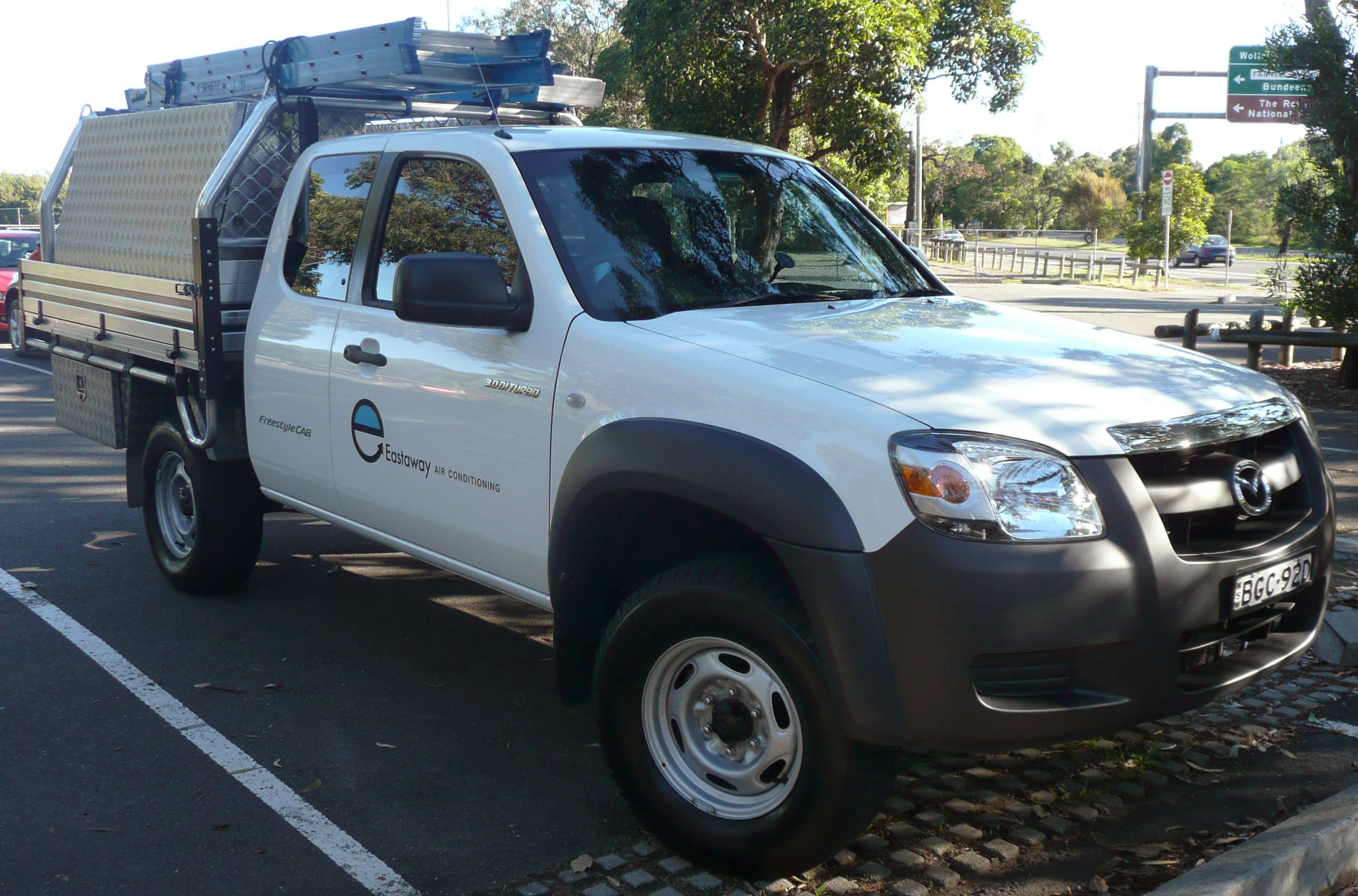 2006–2009 Mazda BT-50 (B3000) DX+ Freestyle 2-door cab chassis. Photographed in Loftus, New South Wales, Australia.